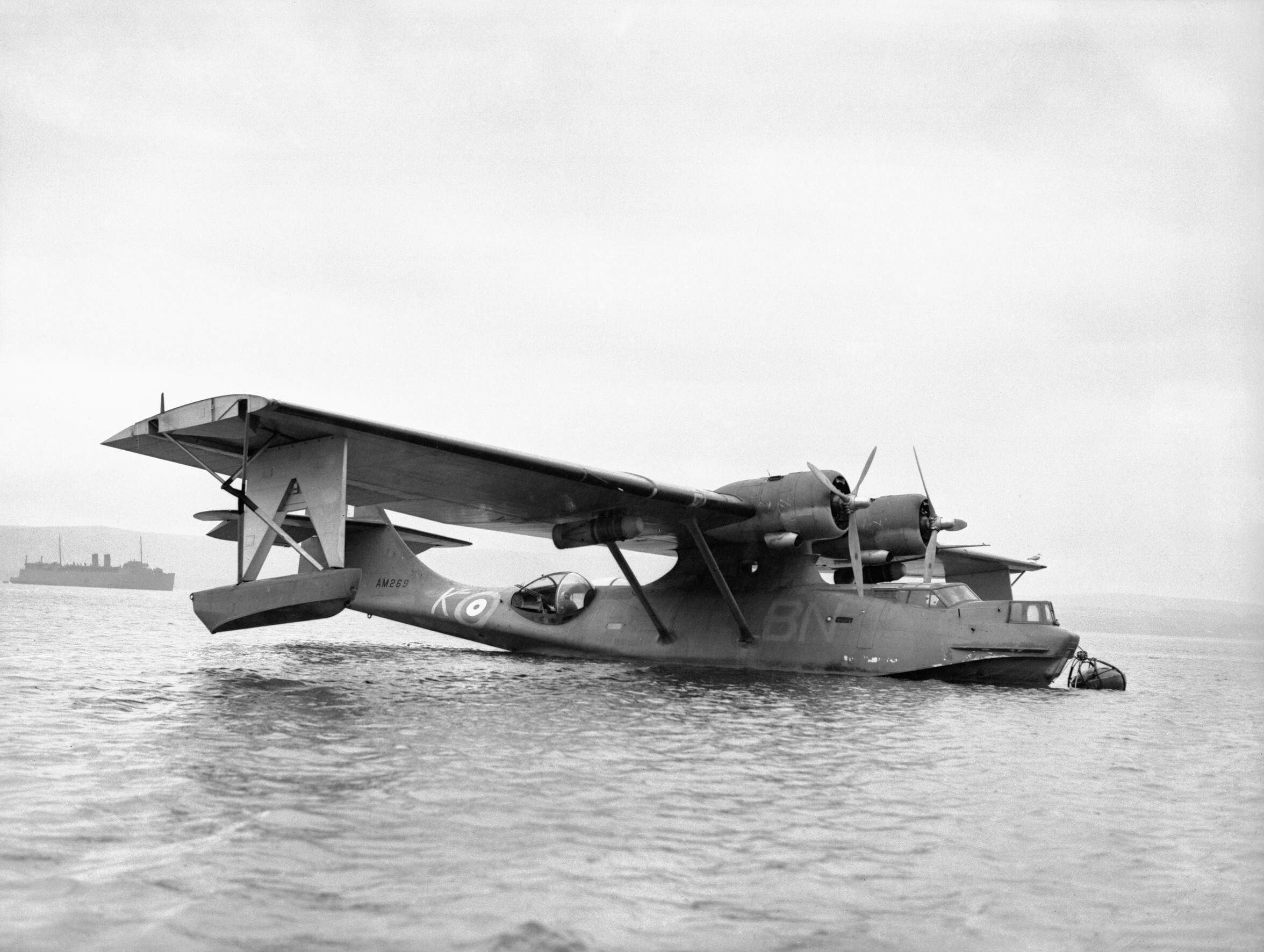 Consolidated Catalina Mk II of No. 240 Squadron RAF based at Stranraer in Scotland, March 1941. Catalina Mark II, AM269 ‘BN-K’, of No 240 Squadron RAF based at Stranraer, Ayrshire, moored on Loch Ryan.